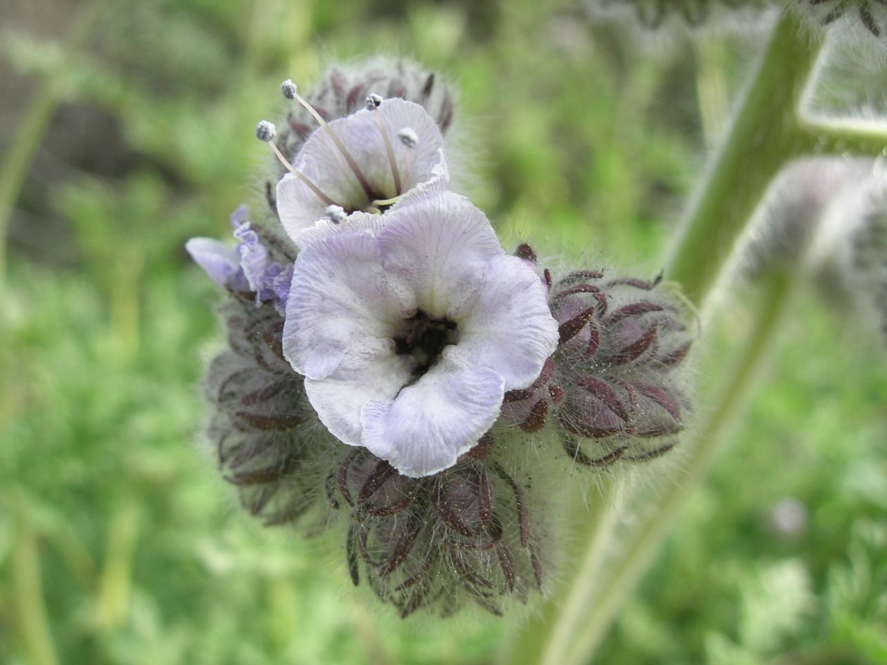 Phacelia cicutarium — Caterpillar phacelia; flower closeup. In Agoura, Santa Monica Mountains, Southern California.